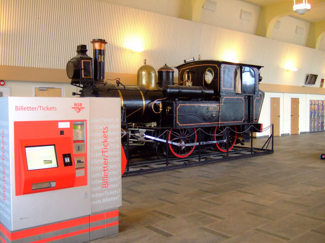 Stavanger Station Departure hall, with NSB type V No. 10 Hugin on display